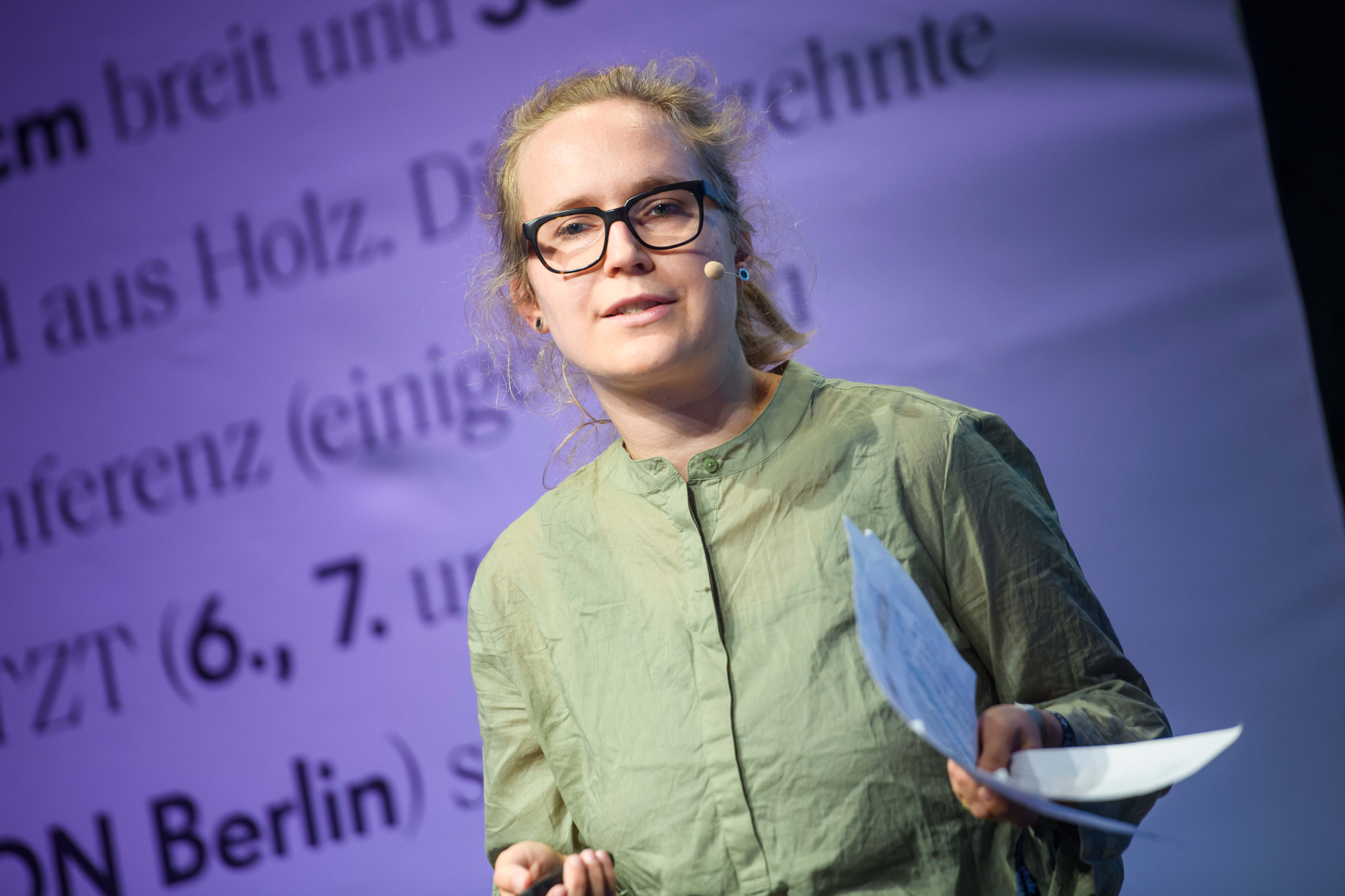 Session: Publisher's patrons: How Big Tech is re-defining journalism Speaker: Alexander Fanta, Adrienne Fichter